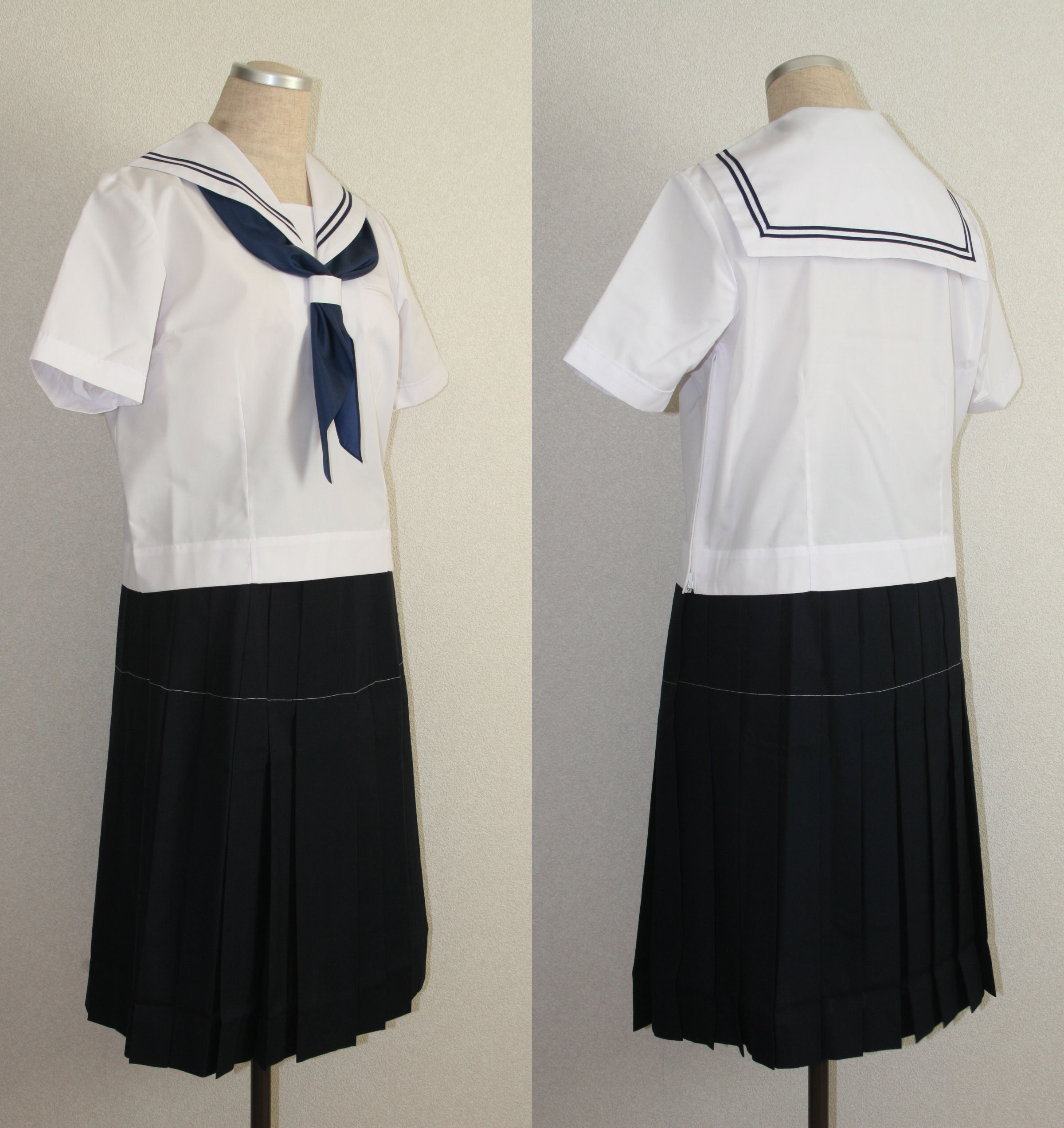 Sailor-fuku (Japanese school uniform for girls) for summer.